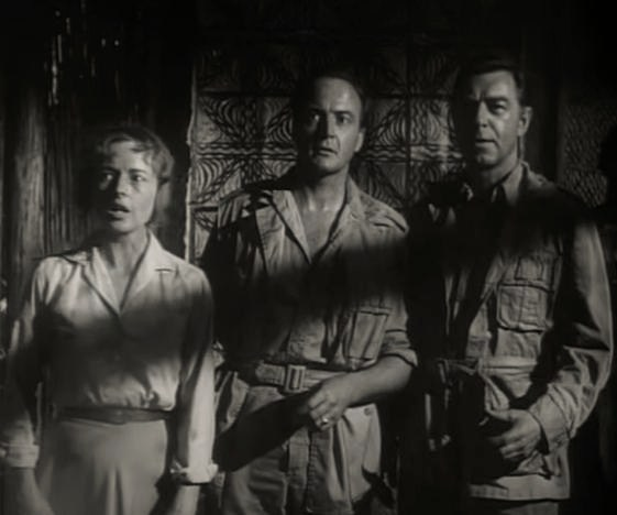 Left to right: Coleen Gray, John van Dreelen, and Phillip Terry in The Leech Woman (1960) - trailer (cropped screenshot)